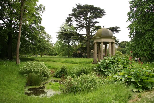 Temple of the Winds. Garden temple 820478 looking towards Doddington Hall